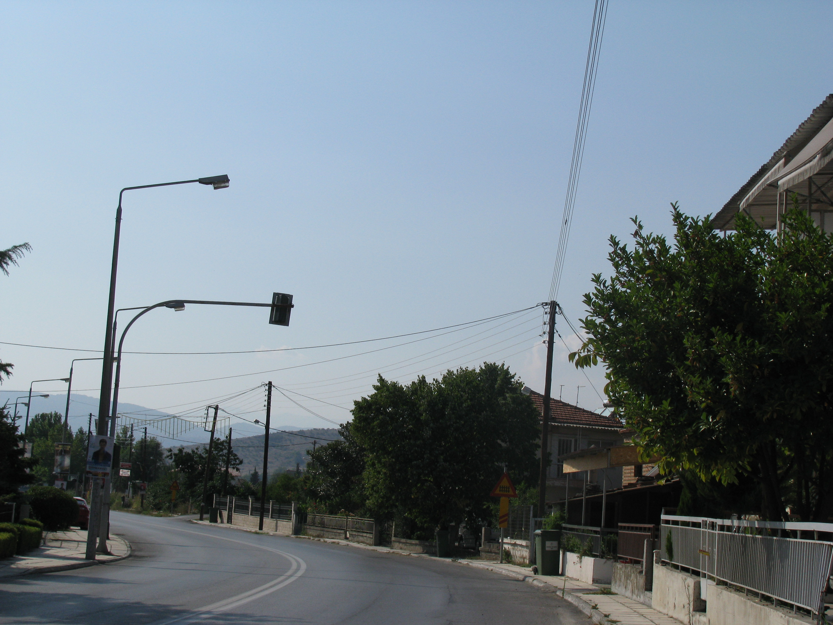 Village of Mavrovouni/Trebolec, Aegean Macedonia, Greece